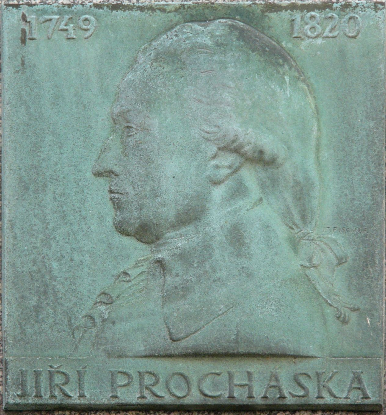 Memorial plaque of Czech biologist Jiří Procháska by Jan Tomáš Fischer (1912-1957) at former Jesuits grammar school building in Jezuitské náměstí square in Znojmo